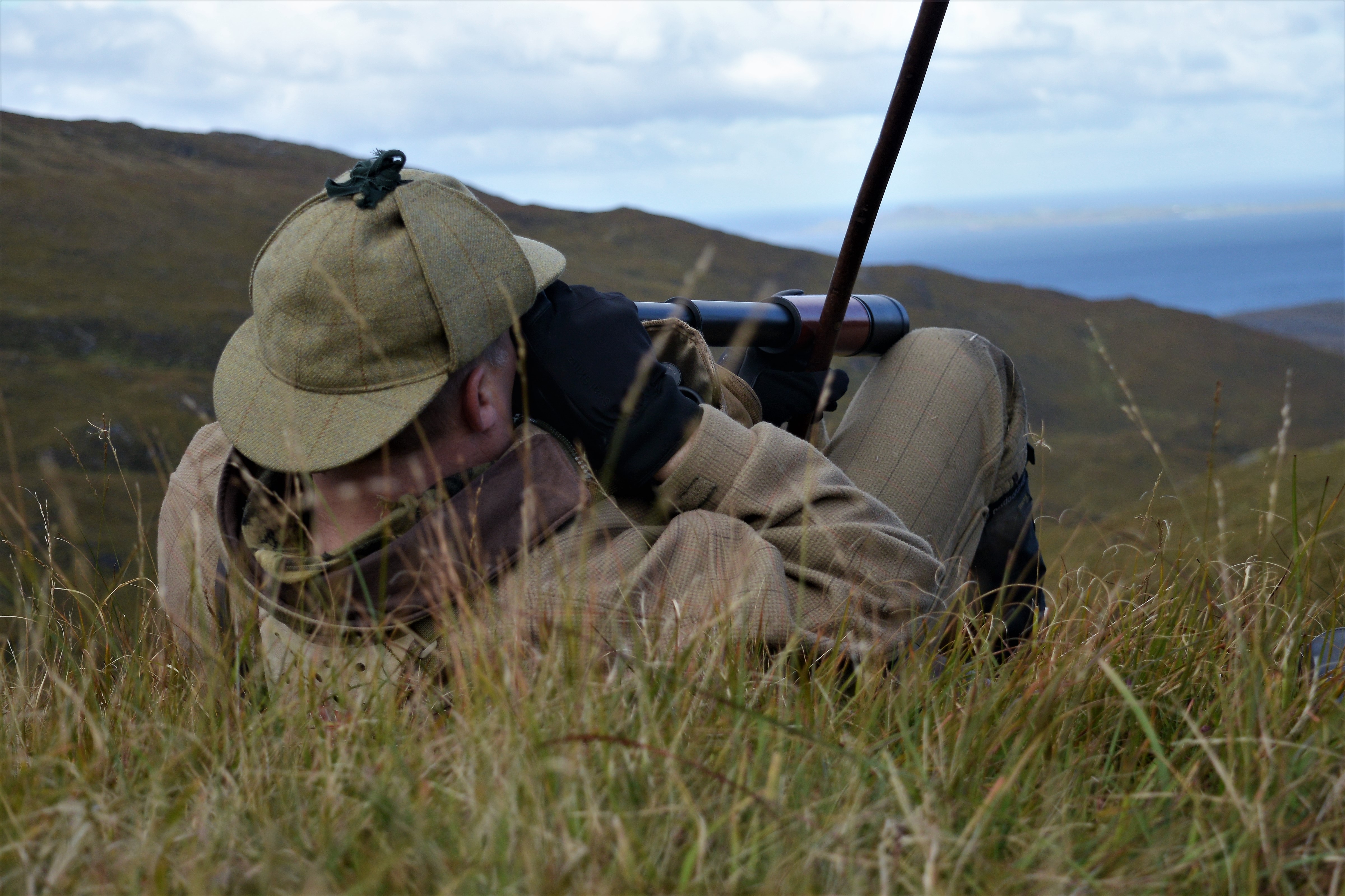 Niall Rowantree, professional stalker and gamekeeper of West Highland Hunting, stalking deer on Ardnamurchan Estate in Scotland, 2017